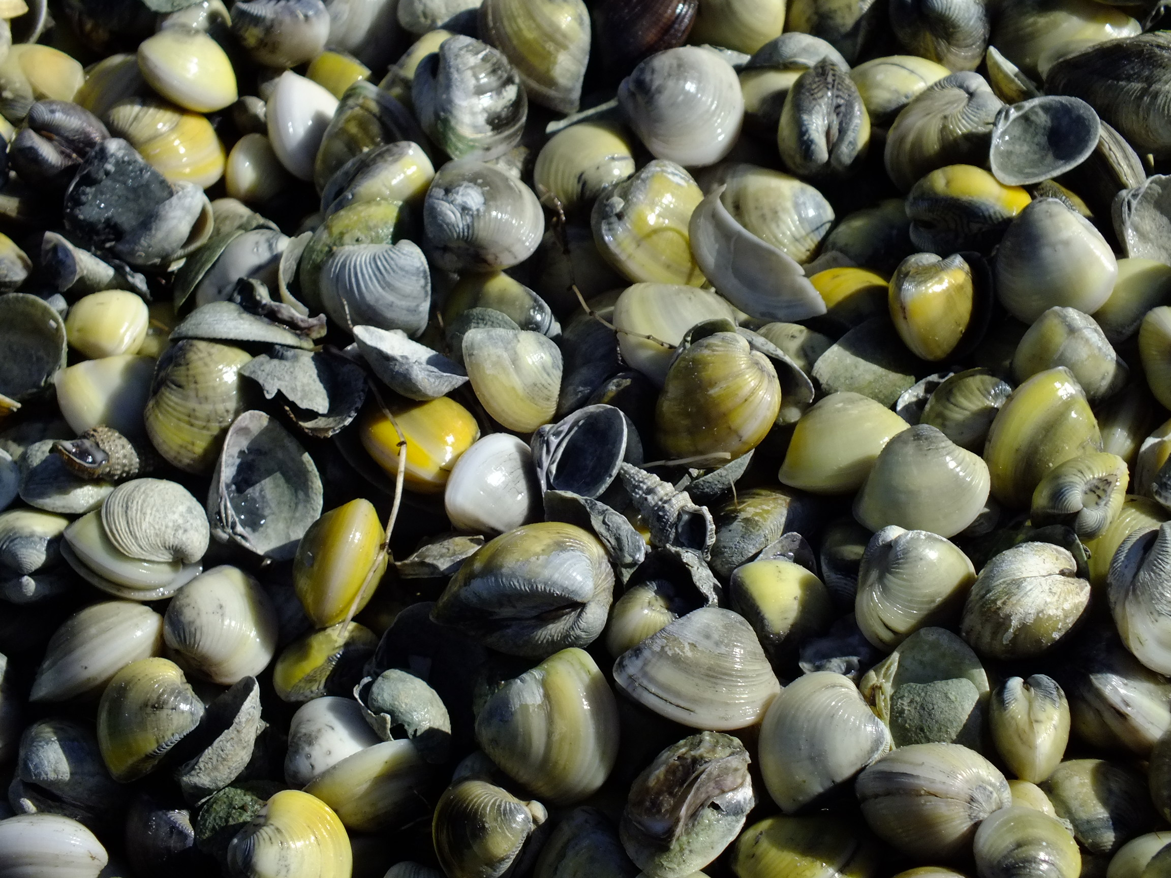 vongole